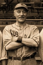 Frank Knauss at a 1921 Old Timers game at League Park. →This file has been extracted from another file: 1921 Cleveland Old Timers Day.jpg